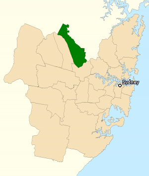 Incorporates or developed using Administrative Boundaries ©PSMA Australia Limited licensed by the Commonwealth of Australia under Creative Commons Attribution 4.0 International licence (CC BY 4.0). Derived from State and Territory Boundaries from the Australian Bureau of Statistics under Creative Commons Attribution 2.5 Australia license (CC BY 2.5 AU)